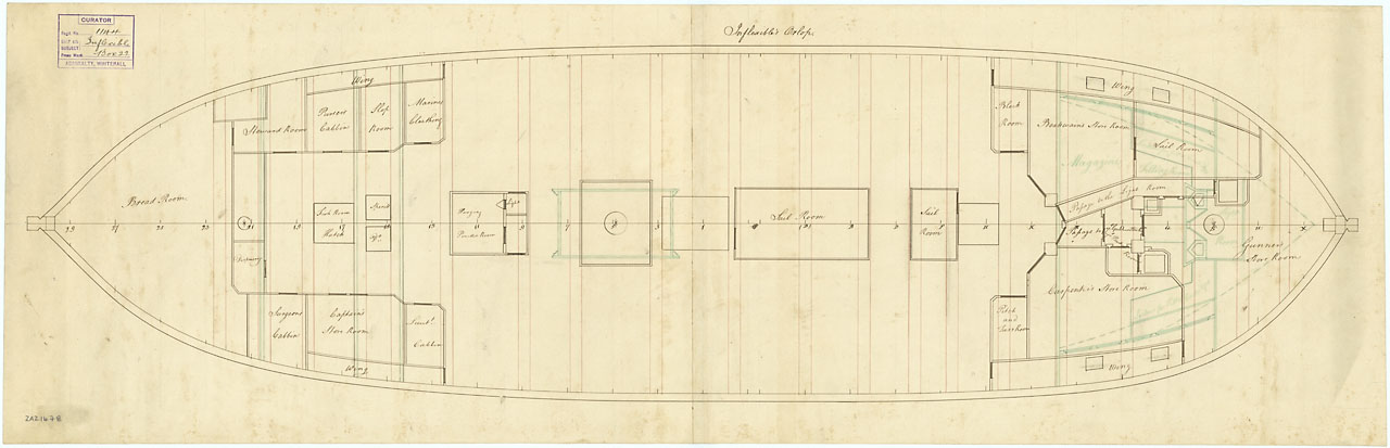 Plan showing the orlop deck with fore & aft platforms for Inflexible (1780), a 64-gun Third Rate, two-decker. Inflexible’s inboard profile records that the plans were used for the other ships in the class: Africa (1781), Dictator (1783), and Sceptre (1781).